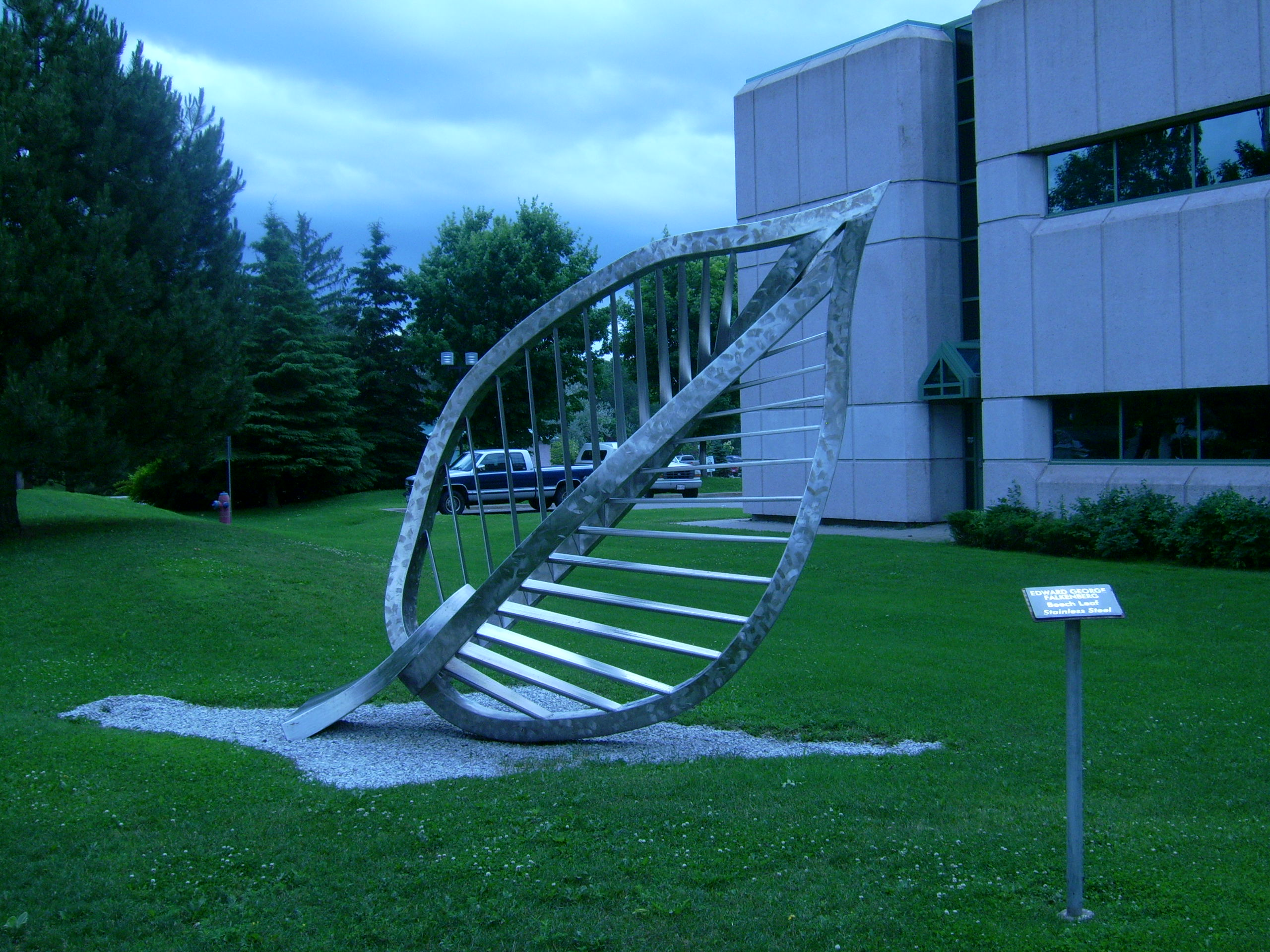 Beech Leaf by Edward George Falkenberg, in front of the Ontario Forest Research Institute, Sault Ste. Marie, Ontario